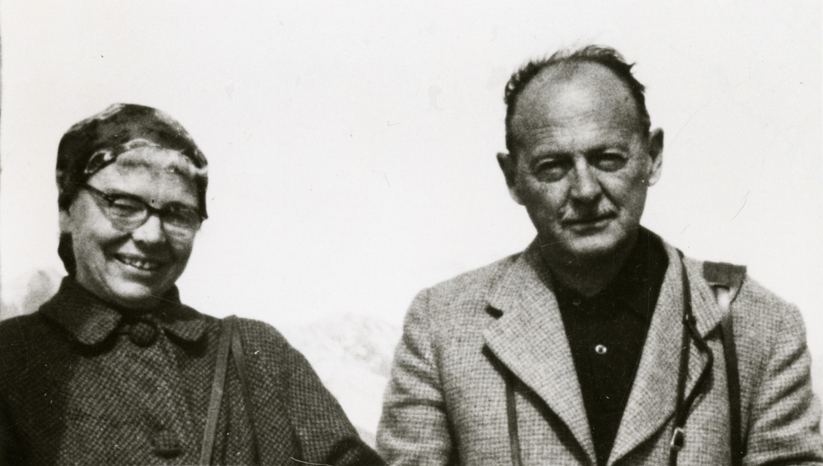 East Asia expert Eleanor Holgate Lattimore (1895-1970) and her husband Owen Lattimore (1900-1989), shown here in publication publicity for their new book Silks, Spices, and Empire (Delacorte Press, 1968). After graduating from Northwestern University in 1915, Eleanor Holgate had studied and taught in China. The Lattimores married in 1925 and she later described their fantastic wedding journey from Peking to India in Turkestan Reunion (1934).